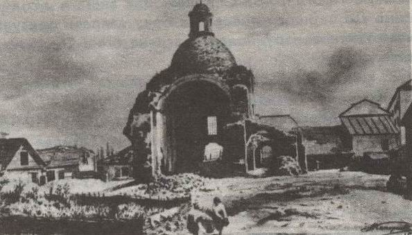 Church of Lutsk Orthodox Fellowship of True Cross